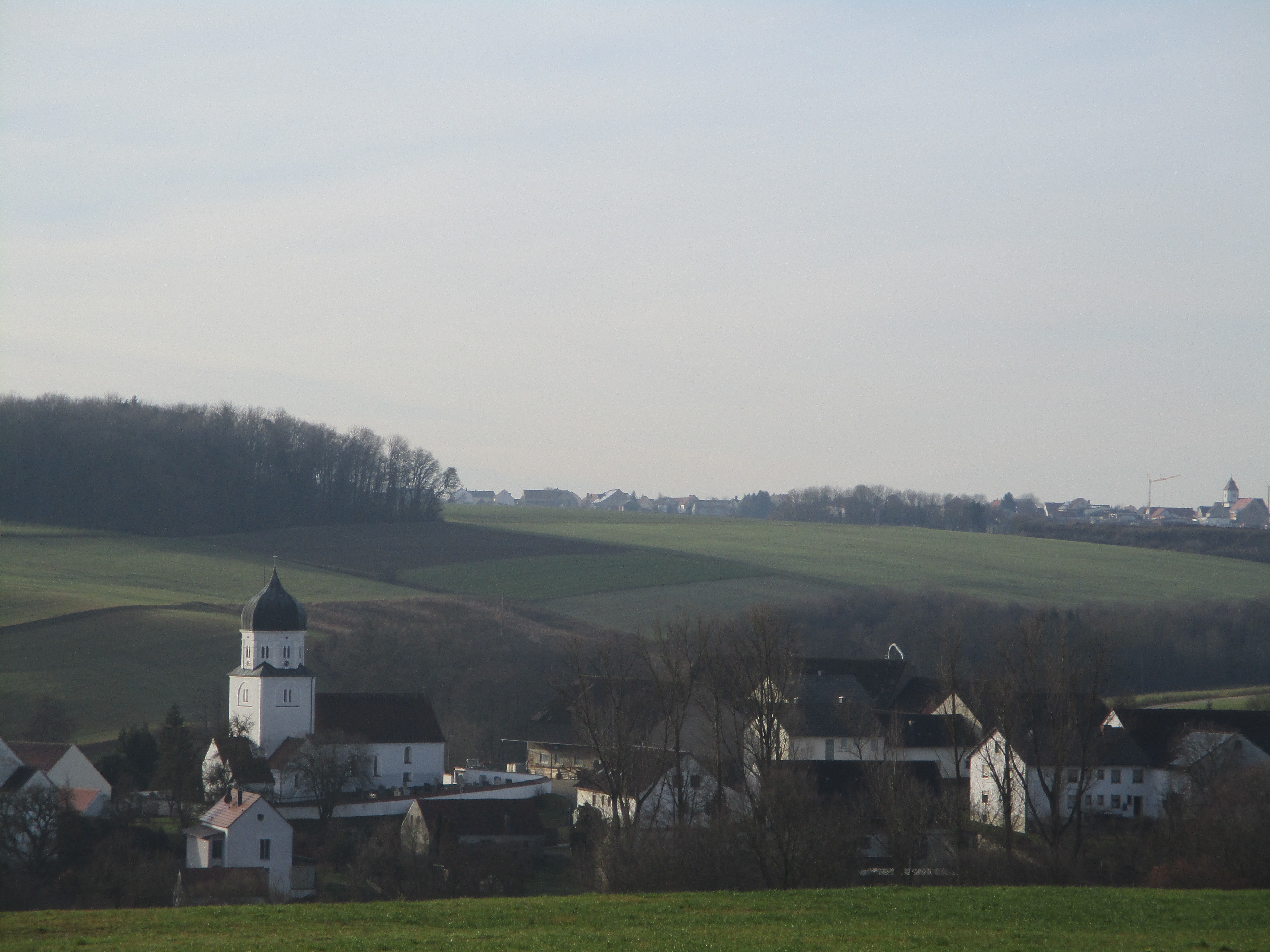 The village of Baierfeld, Bavaria, seen from the north. Buchdorf can be seen in the background.